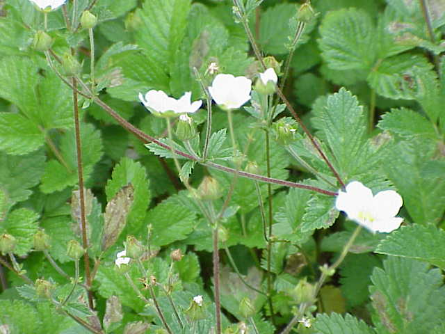 Species: Potentilla fragiformis Family: Rosaceae Image No. 1